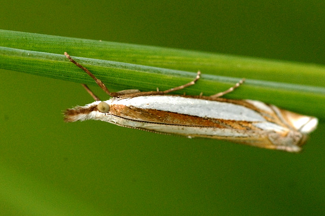 Crambus pascuella from Commanster, Belgian High Ardennes .